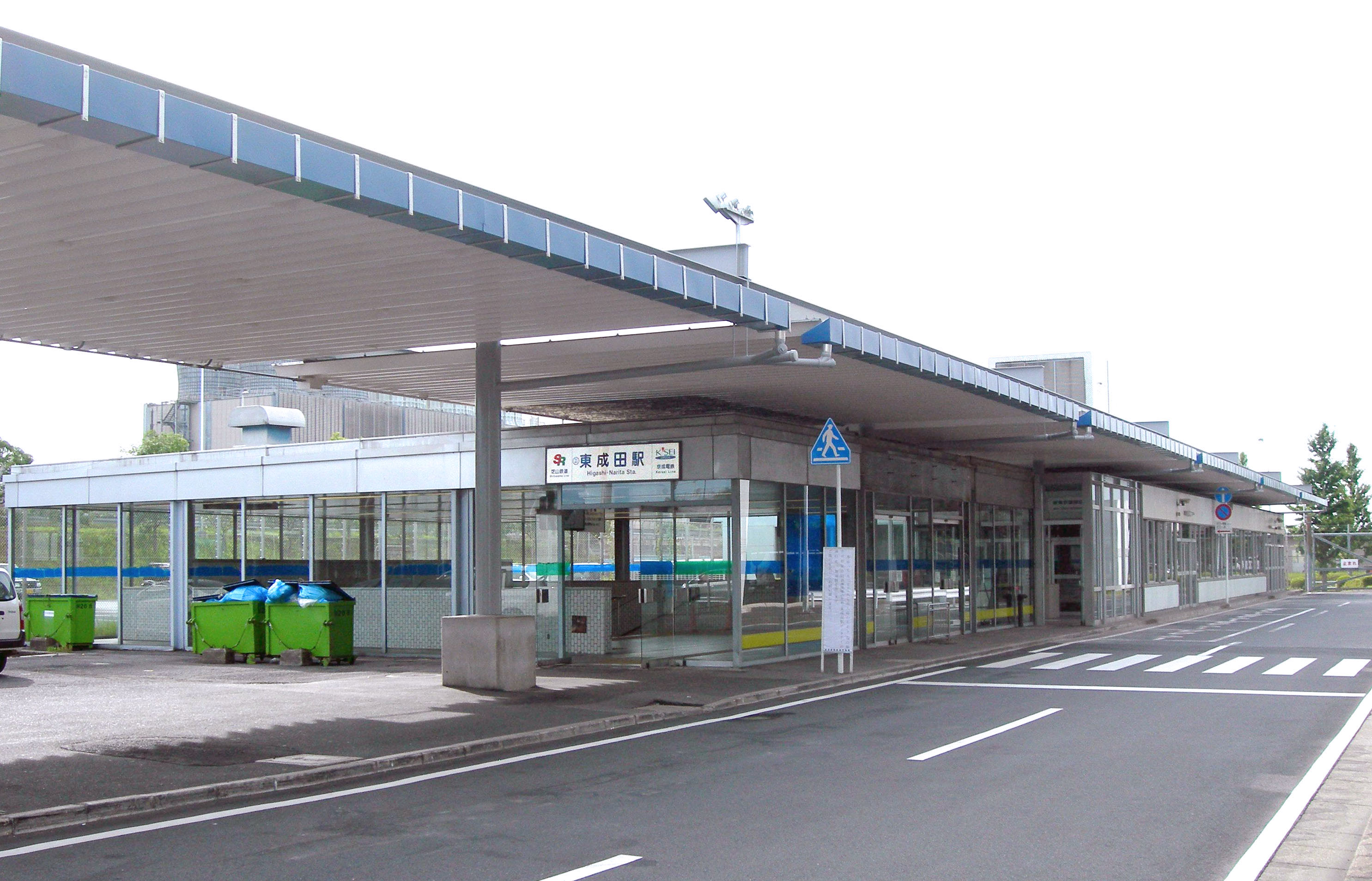 Higashi-Narita Station